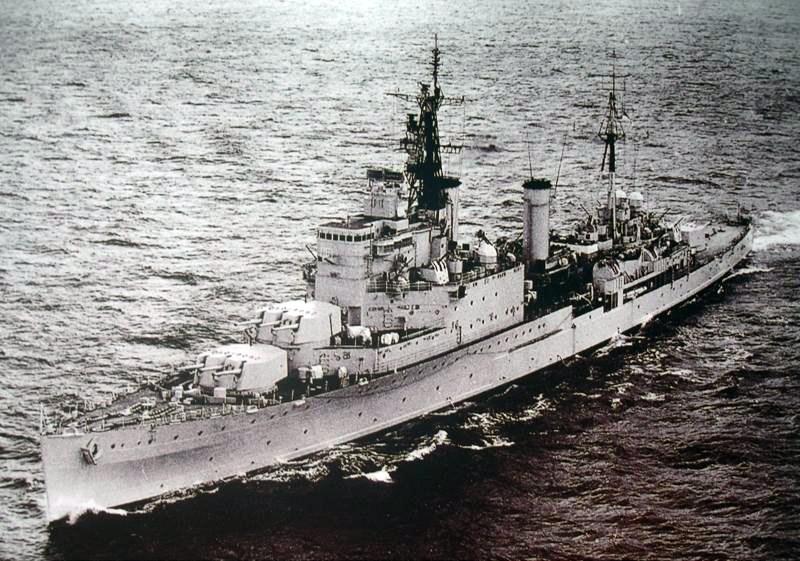 BAP Capitán Quiñones in the late 70s (Source: Peruvian Navy Archive)